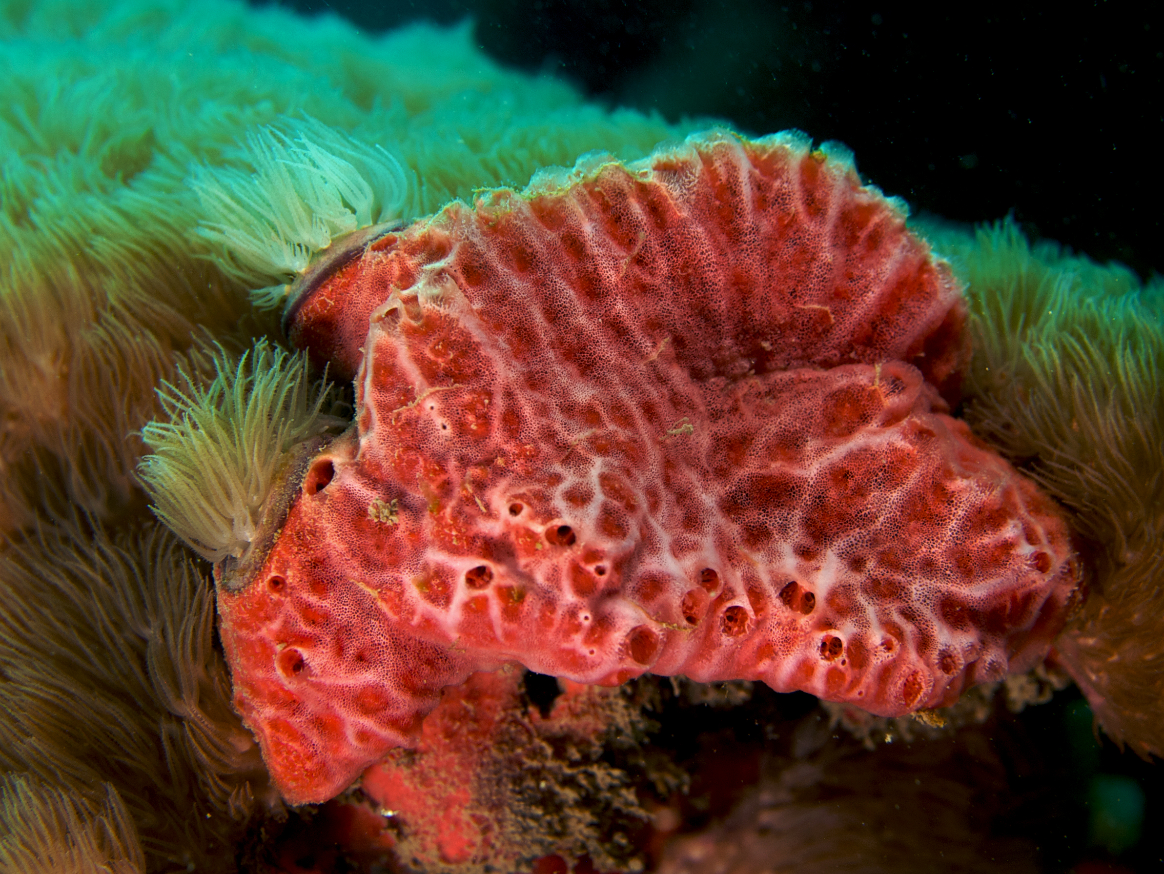 Monanchora arbuscula (Pink Lumpy sponge)